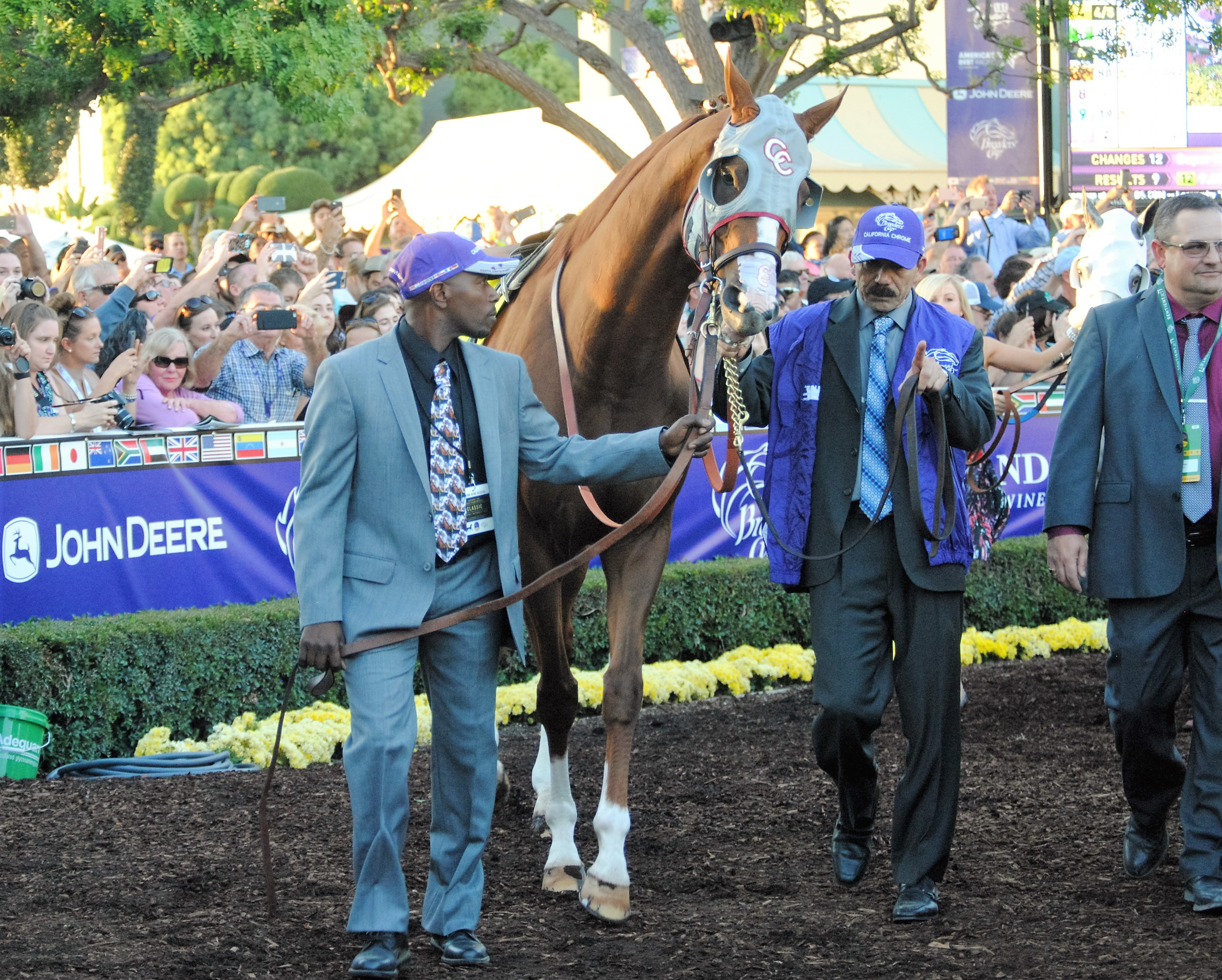 California Chrome before the 2016 Breeders' Cup Classic. People with horse in photo (l-r): Exercise rider Dihigi Gladney, groom Raul Rodriquez, assistant trainer Alan Sherman (partially visible)